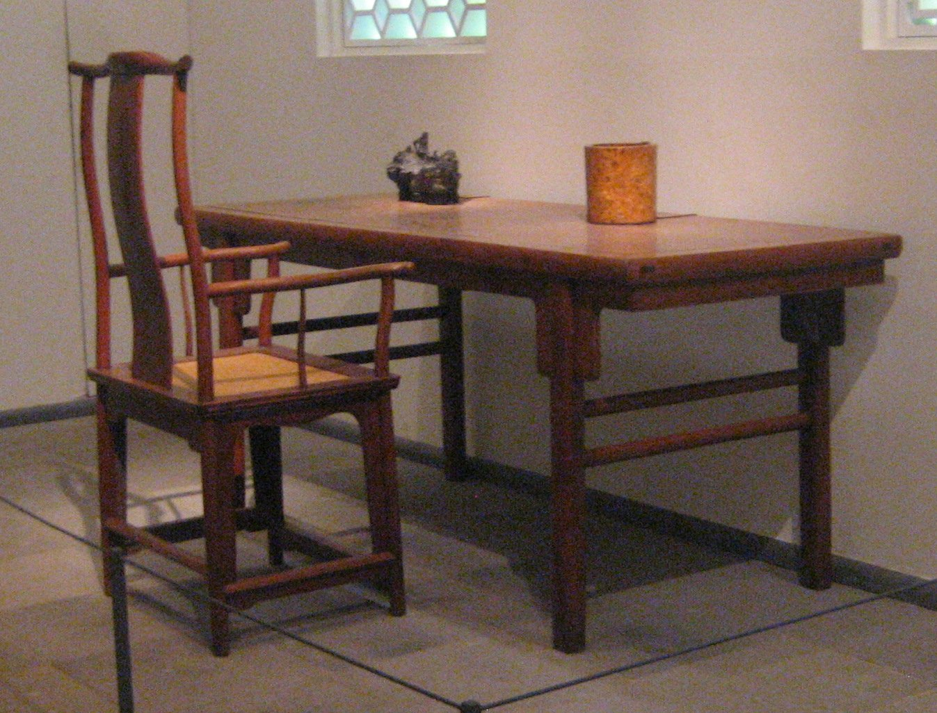 Yokeback armchair and painting table, Ming dynasty, Metropolitan Museum of Art